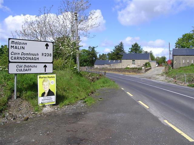 R238 at Moville Looking north-west